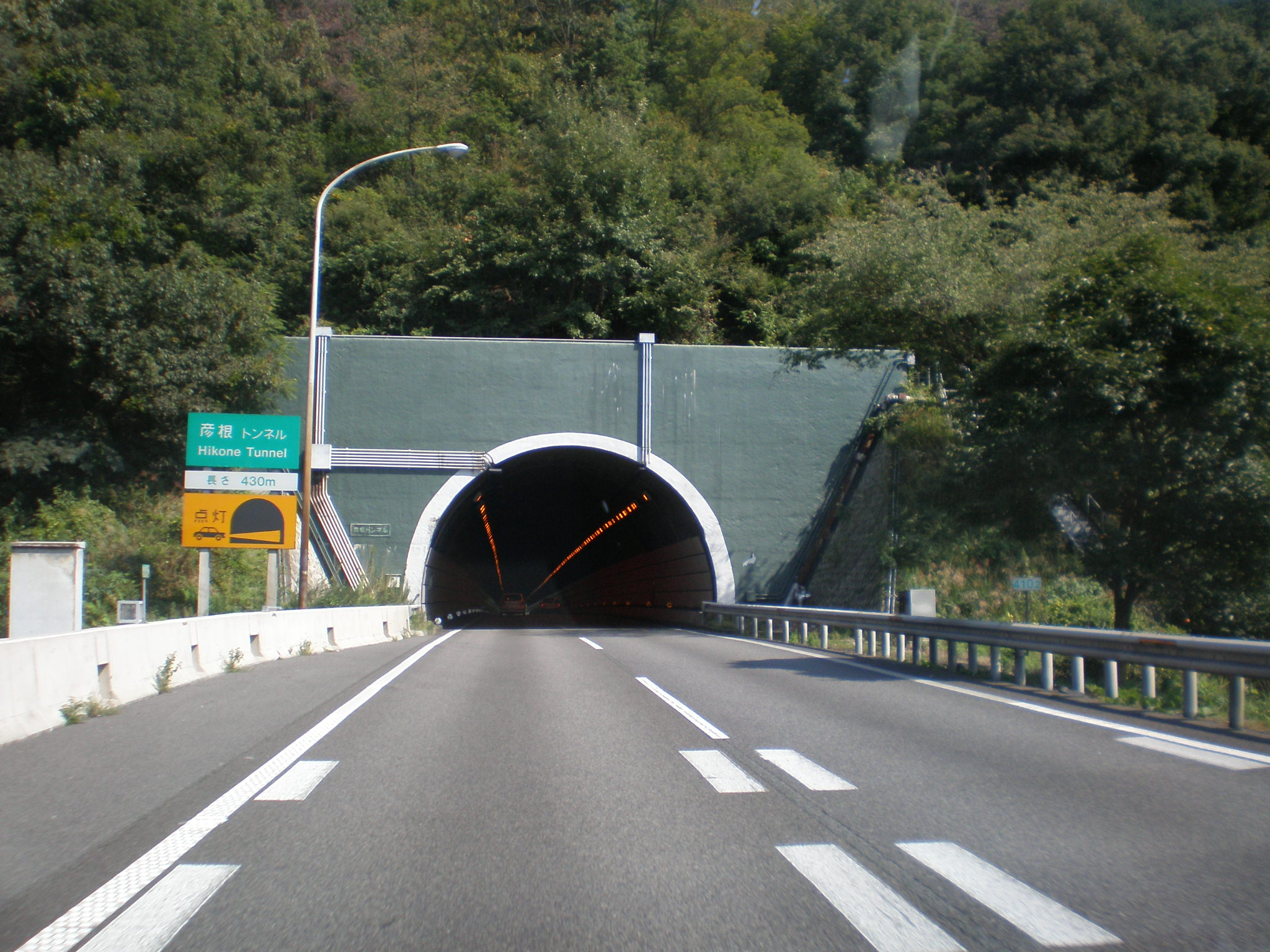 Hikone tunnel in Meishin Expressway. I took this image at Nakayama-cho Hikone City Shiga Pref., Japan.